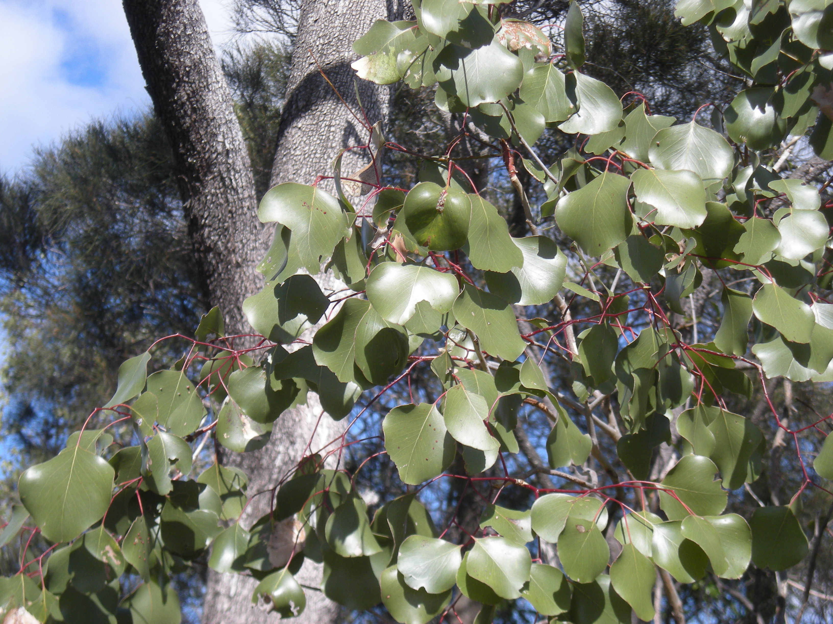 Eucalyptus populnea leaf, coastal Queensland